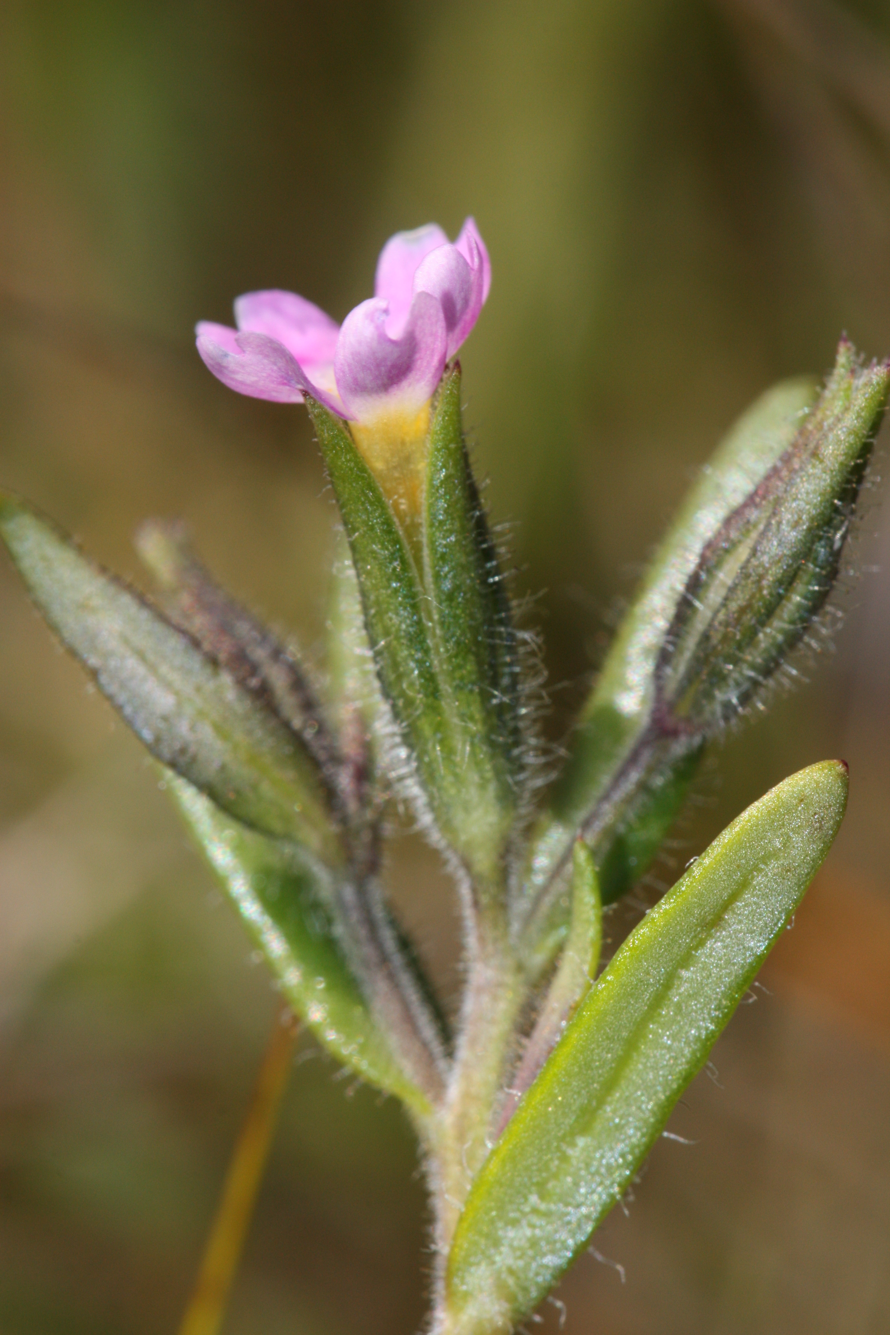 Slender Phlox Viewpoint location: McCall Point Trail, Tom McCall Preserve Viewpoint elevation: 525 meter (1722 ft) Location source: Garmin GPSmap 60CSx Location Datum: WGS84